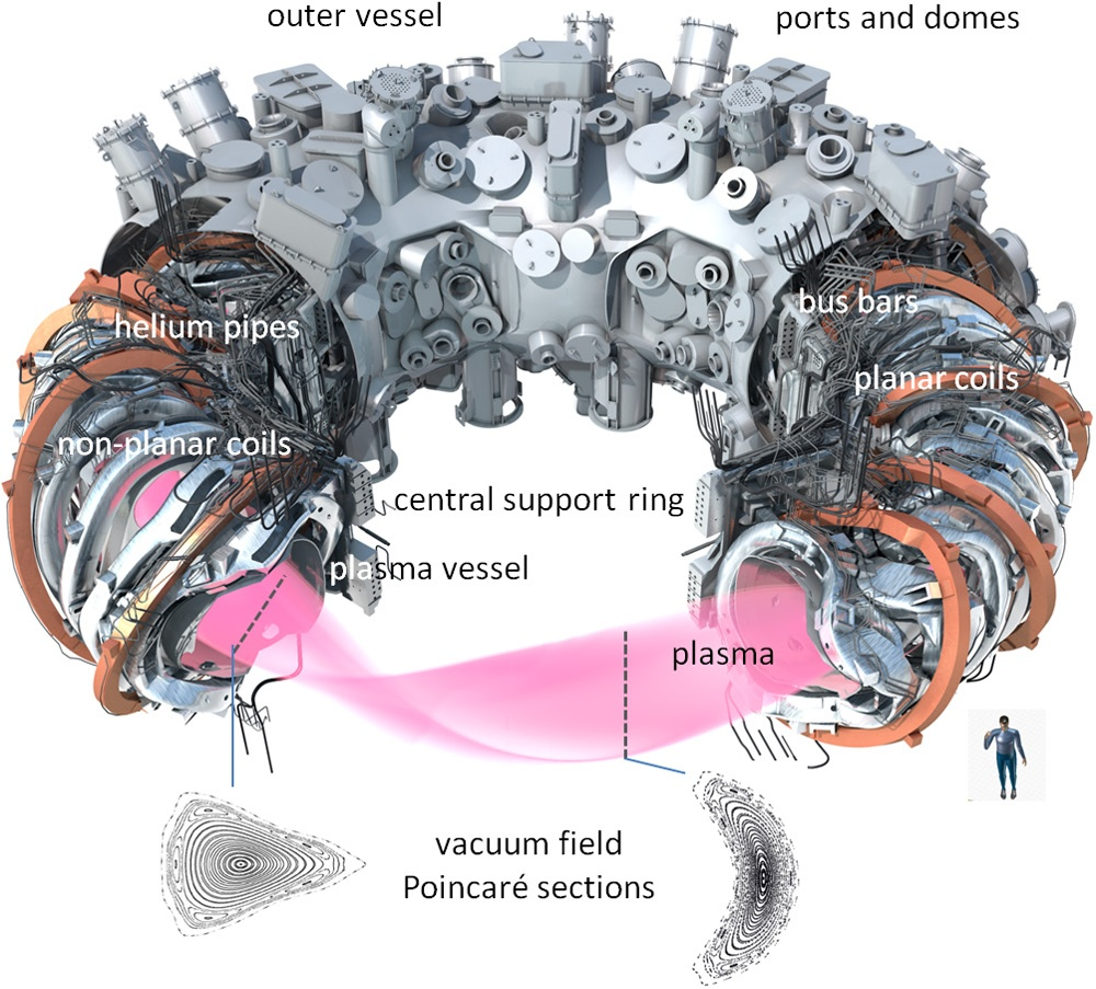 Schematic diagram of the superconducting stellarator Wendelstein 7-X. The last closed magnetic flux surface is indicated in magenta. The plasma vessel is shaped according to the magnetic field geometry. The 50 non-planar coils have an aluminum foil plated steel casing, the 20 planar coils a copper plated steel casing. The non-planar and the planar coils of each type are connected in series via superconducting bus bars. Coils, coil casings and the central support ring are supplied with liquid helium by means of a pipe system. The magnet system is operated in the vacuated cryostat volume between the plasma vessel and the outer vessel.